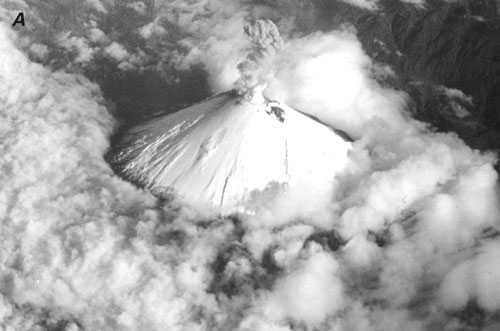 An oblique aerial photograph shows an almost completely smooth, fresh blanket of snow. The photograph was taken by Ekkehard Jordan from the northwest at an elevation of about 9,000 m on 31 May 1977.